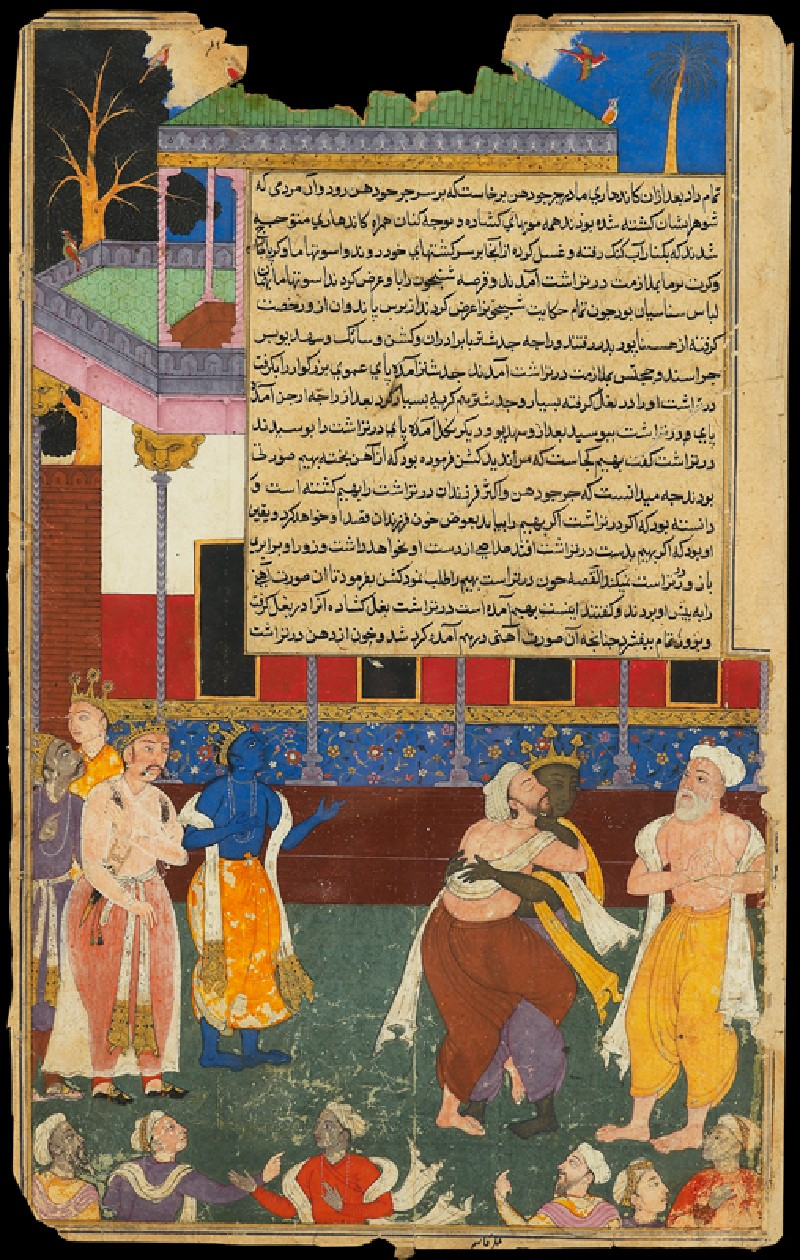 The blind Dhritarashtra attacks the statue of Bhima north India, 1616 - 1617 on display Description Details Further reading Associated place Asia › India › north India (place of creation) Date 1616 - 1617, Mughal Period (1526 - 1858) Artist/maker Qasim (active 17th century) Associated people Abd ur-Rahim Khankhanan (1556 - 1626) (commissioner) Material and technique gouache with gold on paper Dimensions frame 48.2 x 34.2 x 1.7 cm (height x width x depth), painting 38.2 x 23.3 cm (height x width) Material index paper, gold Technique index painted Object type index painting, calligraphy, manuscript No. of items 1 Credit line Lent by Howard Hodgkin.